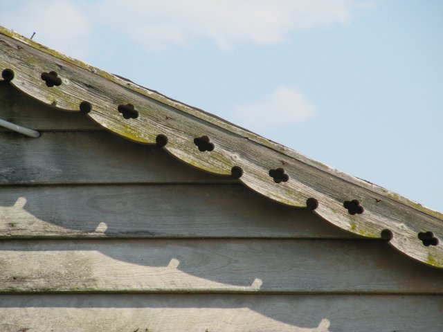 Beulah, Gilead